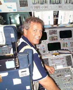 NASA Program Manager and NEEMO 1 aquanaut Bill Todd inside the Aquarius underwater laboratory. From NASA photo in public domain.